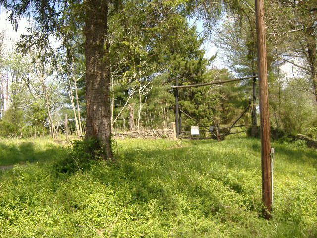 Original entrance to the Tunnel Mill Scout Reservation, which includes the John Work House and Mill Site. Located near Charlestown in Clark County, Indiana, United States, it is listed on the National Register of Historic Places because of its value as an archaeological site.